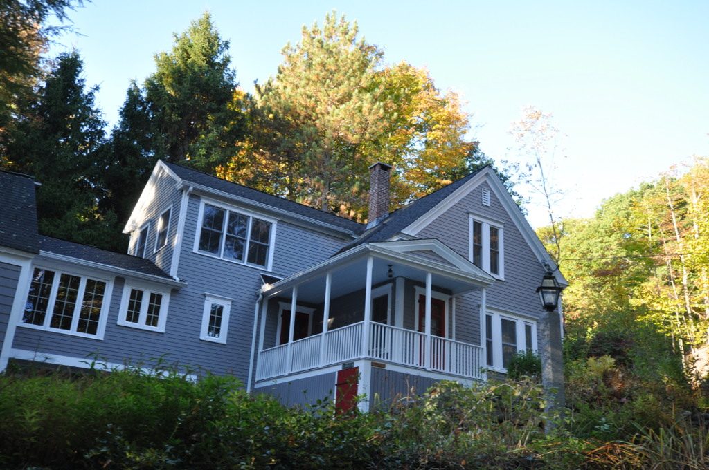 200 Shepard Hill Road, part of the Shepard Hill Historic District, Holderness, New Hampshire.